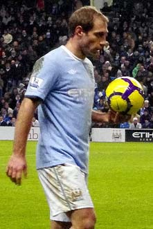 Pablo Zabaleta of Manchester City F.C. getting ready to throw the ball in against Bolton Wanderers.